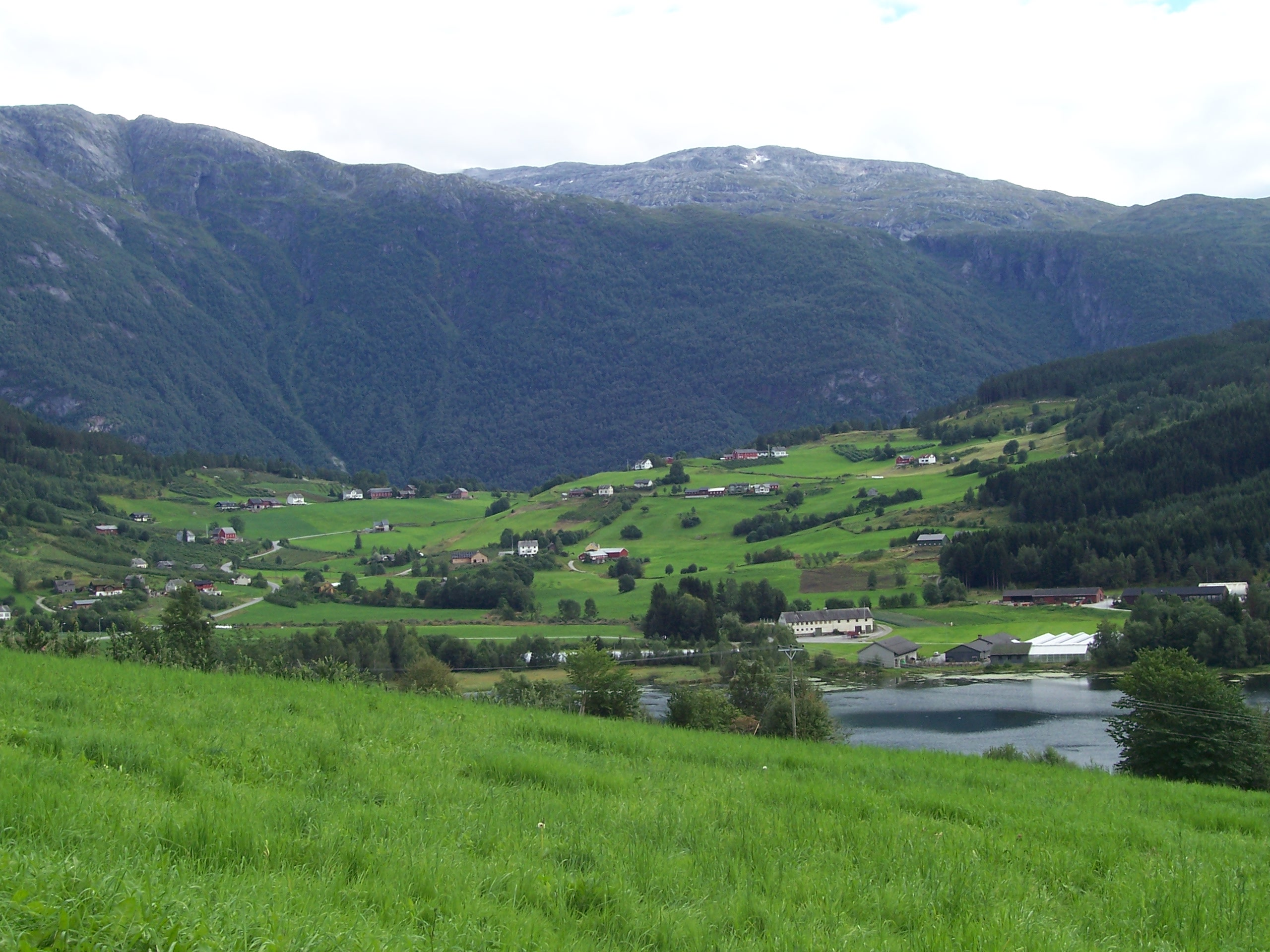 In the afternoon we went for a walk in the hills around town, which gave us some nice views of Ulvik. Taken on day 6 of our fjord based holiday in Norway.